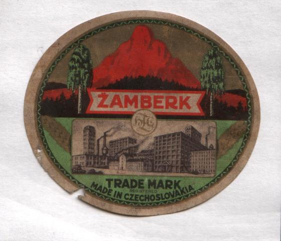 Žid a spol., textile factory in Žamberk, fabric closing label.